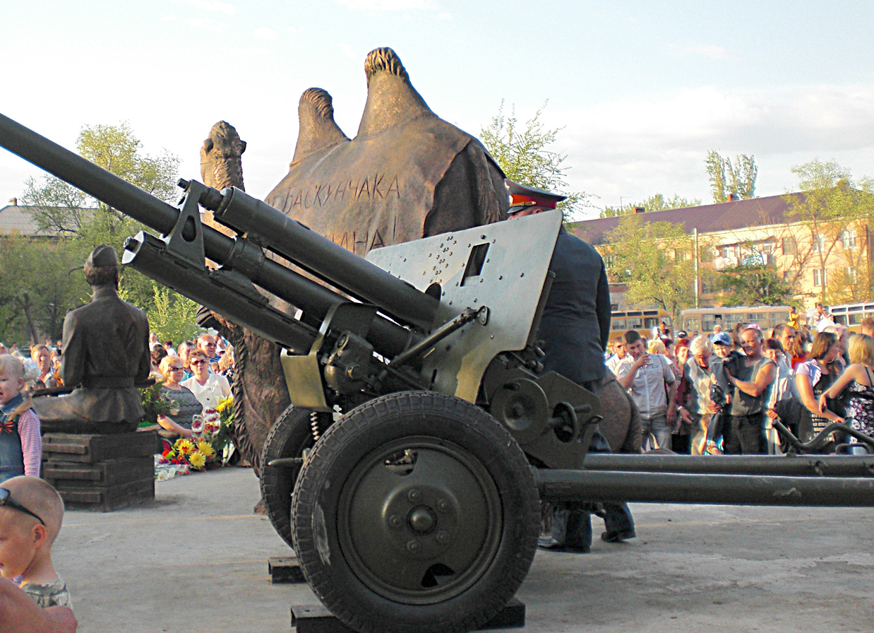 Gun, Akhtubinsk, a monument, we have won, war, a victory, 9 may